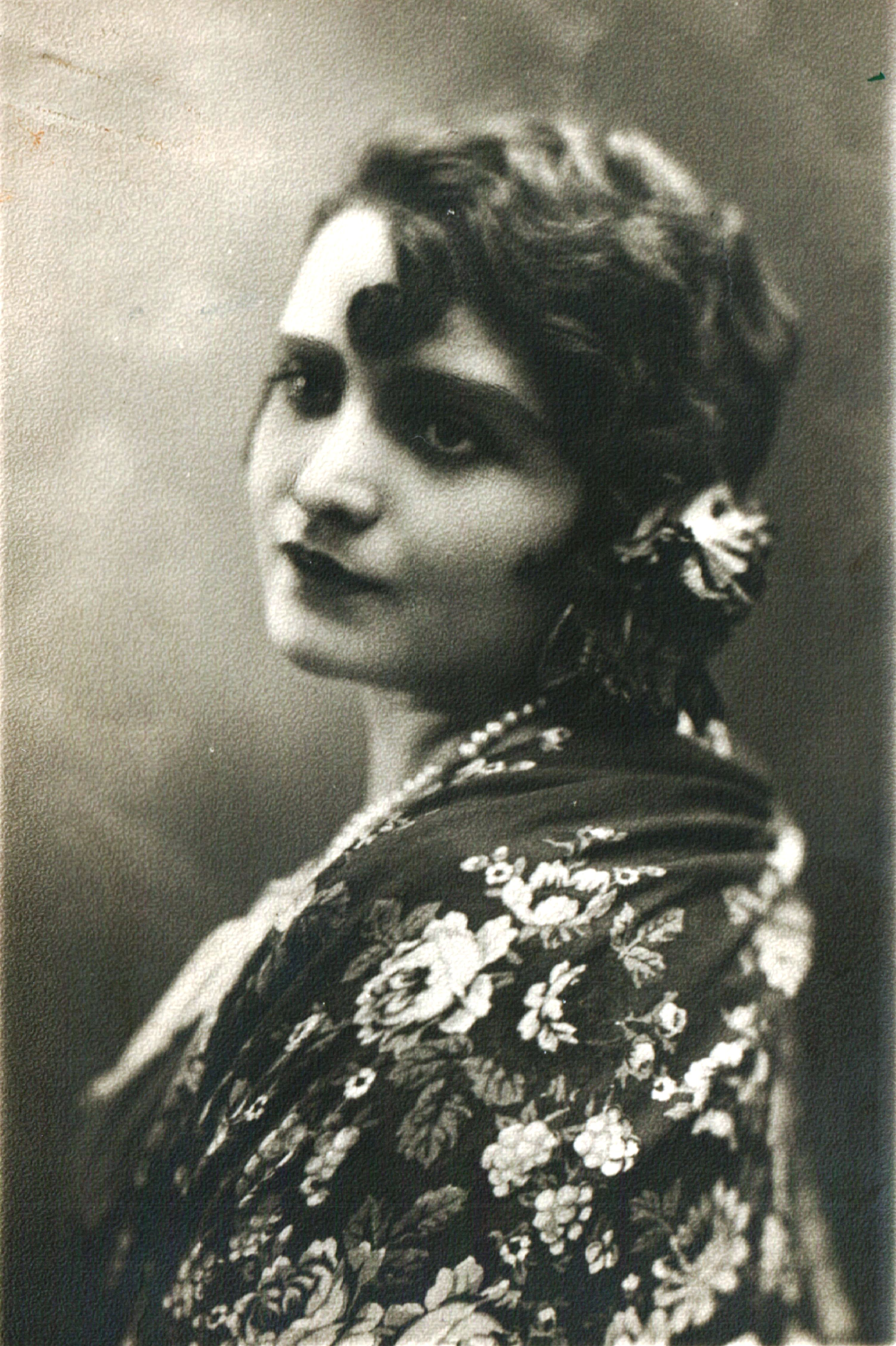 Bulgarian opera singer Anna Todorova